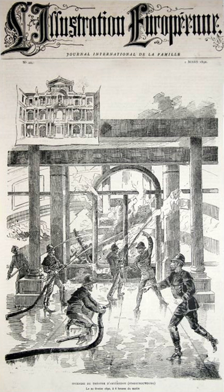 Frontpage of the Belgian magazine L'Illustation Européenne of march 1890 with the illustration of the fire at the "Stadsschouwburg" in Amsterdam